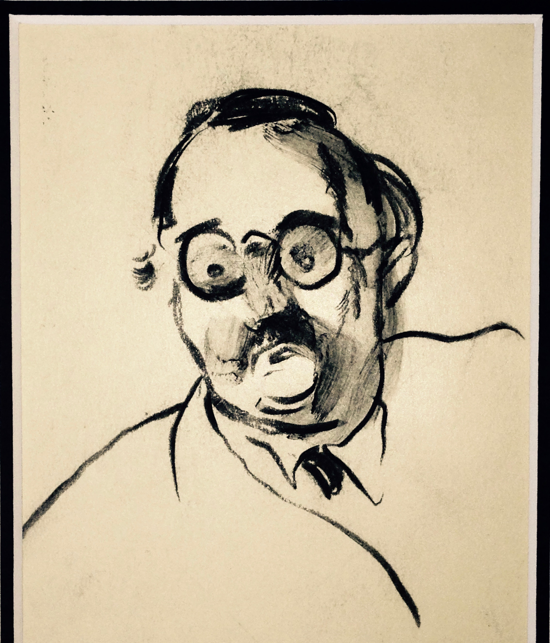 Robin Darwin, former head of the Royal College of Art, London, England. 1953 Drawing by: Arthur Lismer, Canada, Group of Seven.